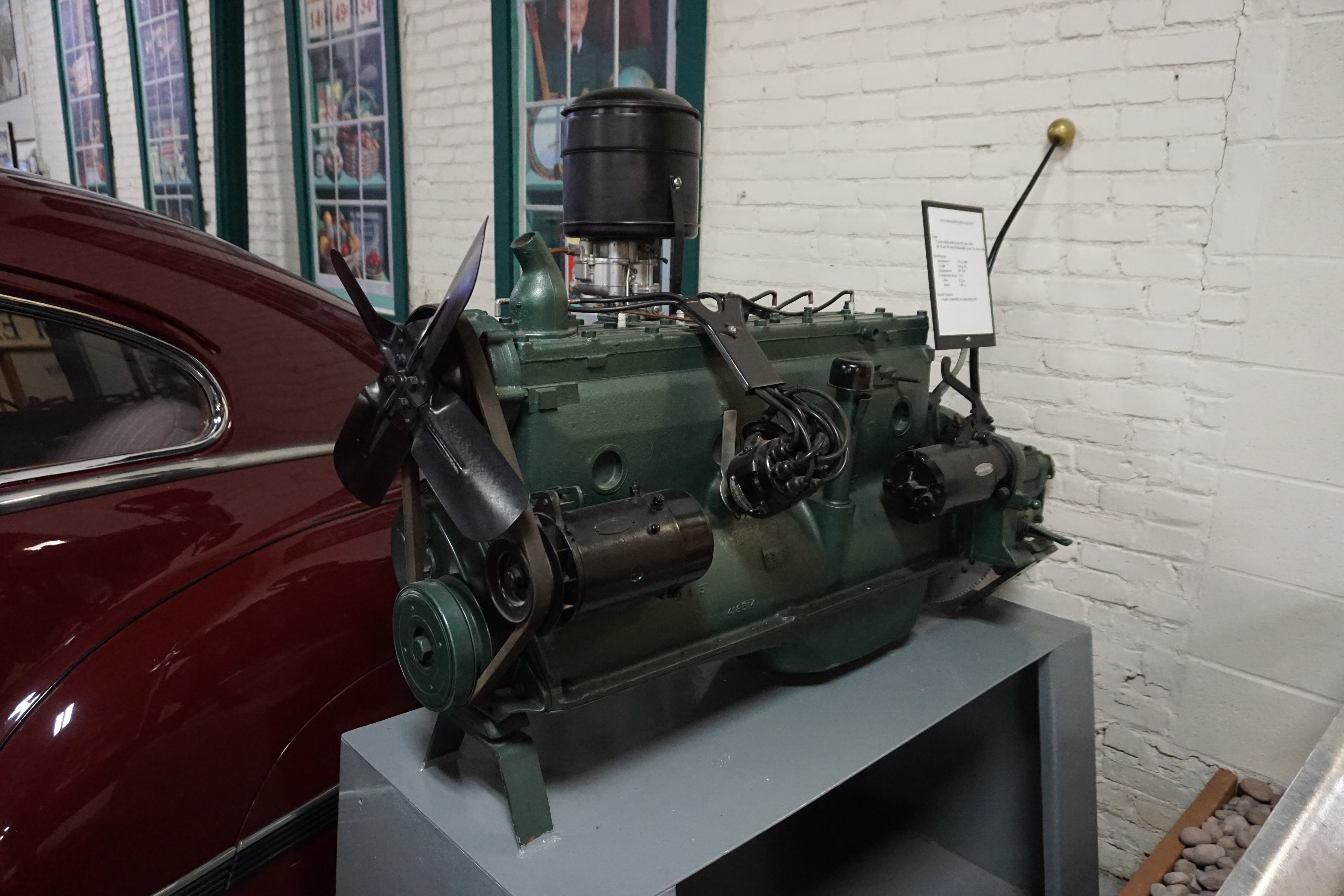 A 1932-48 Oldsmobile inline 8 engine at the R. E. Olds Transportation Museum in Lansing, Michigan (United States).